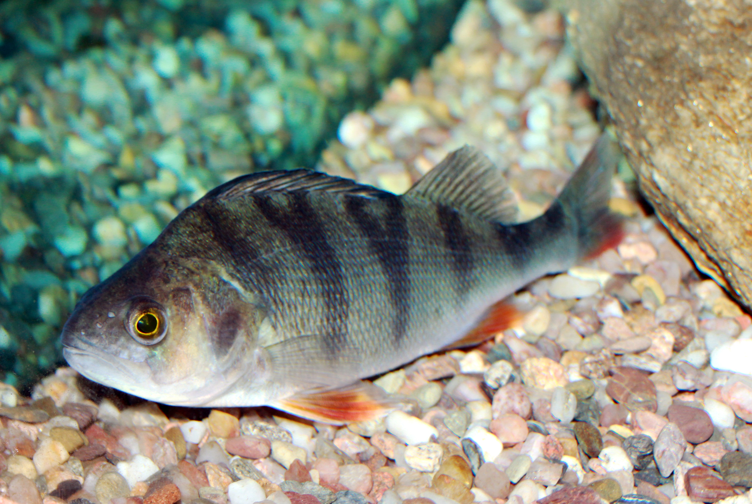 European perch on exhibition Subaqueous Vltava, Prague 2011, Czech Republic